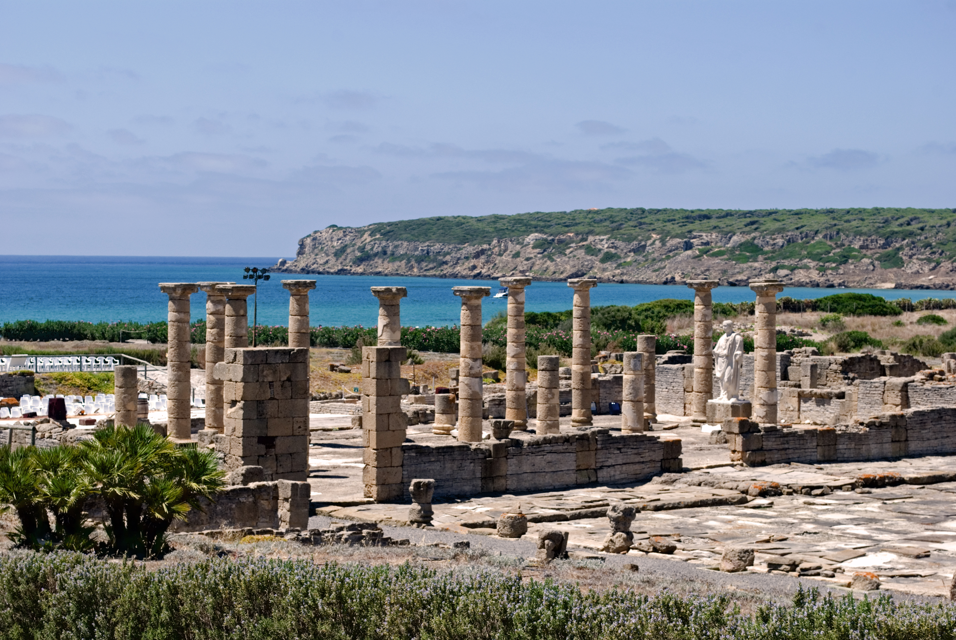 Baelo Claudia, province of Cádiz, in Spain